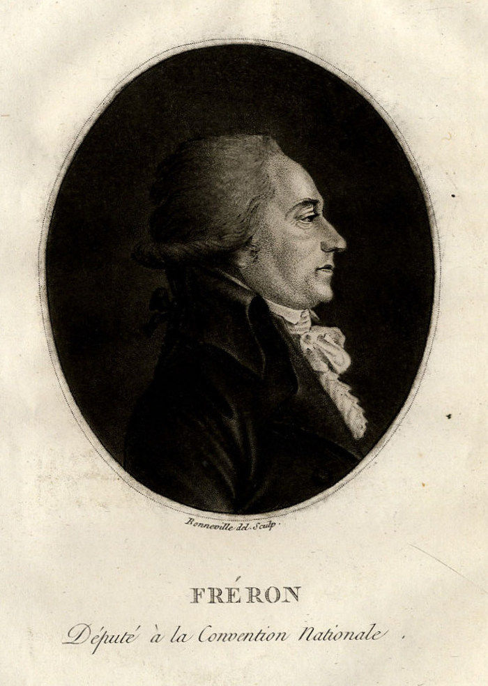 Louis-Marie Stanislas Fréron (1754-1802), French revolutionary